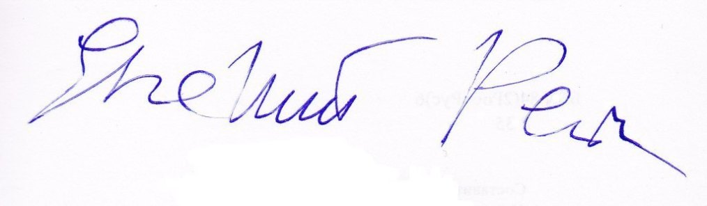 Signature of Russian poet Yevgeny Rein